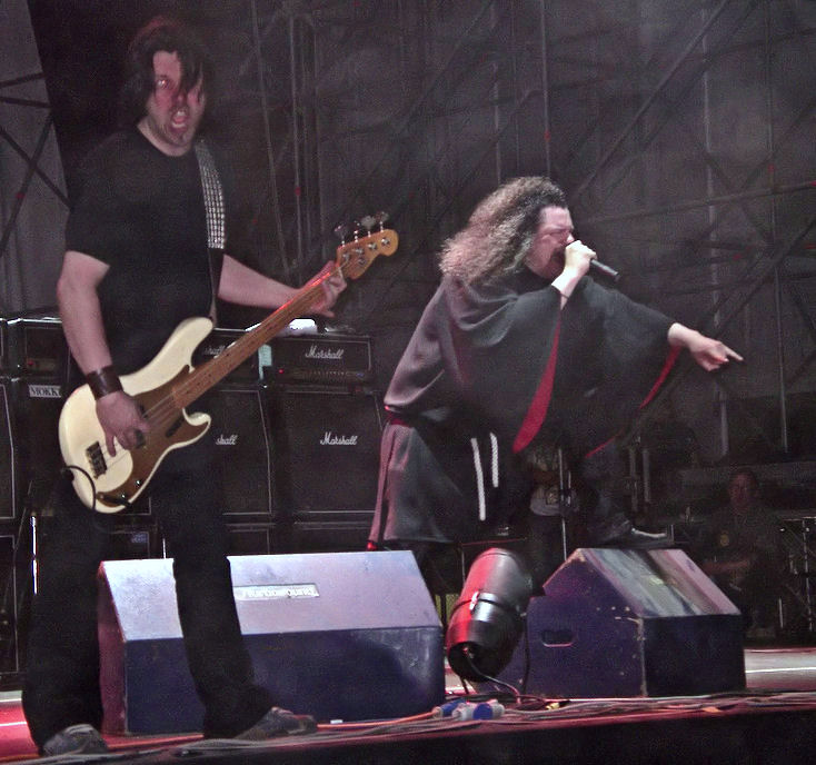 Leif Edling and Messiah Marcloin, of Swedish Heavy metal band Candlemass